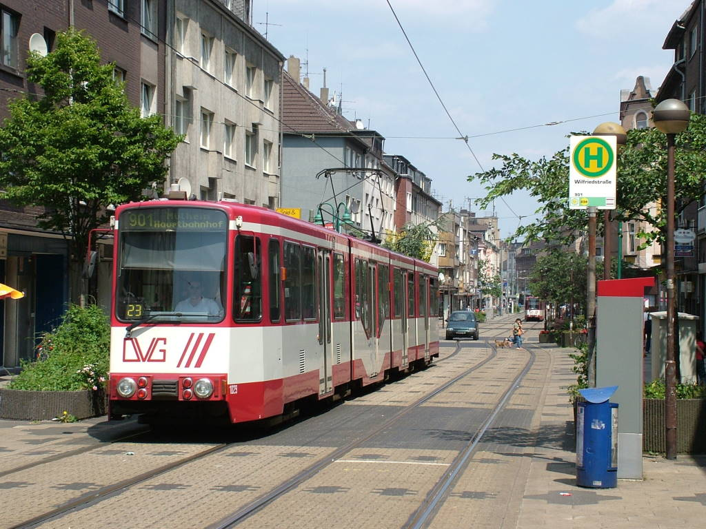 Tramcar 1029 of Duisburger Verkehrsgesellschaft (type GT 10 NC-DU) at Wilfriedstrasse stop, Duisburg-Marxloh